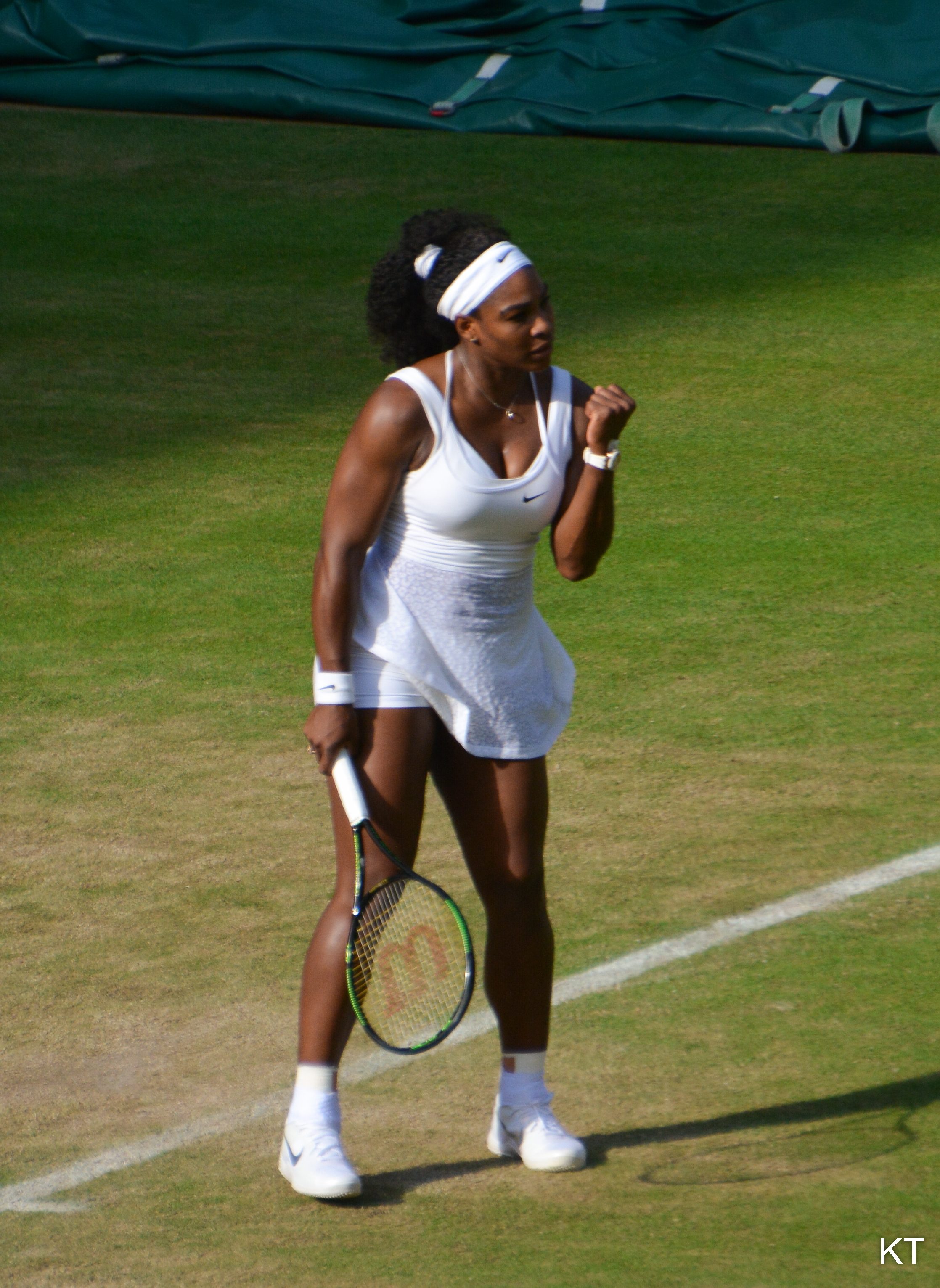 Serena Williams during her 3rd round match with Heather Watson on Centre Court. Day 5 of Wimbledon 2015.